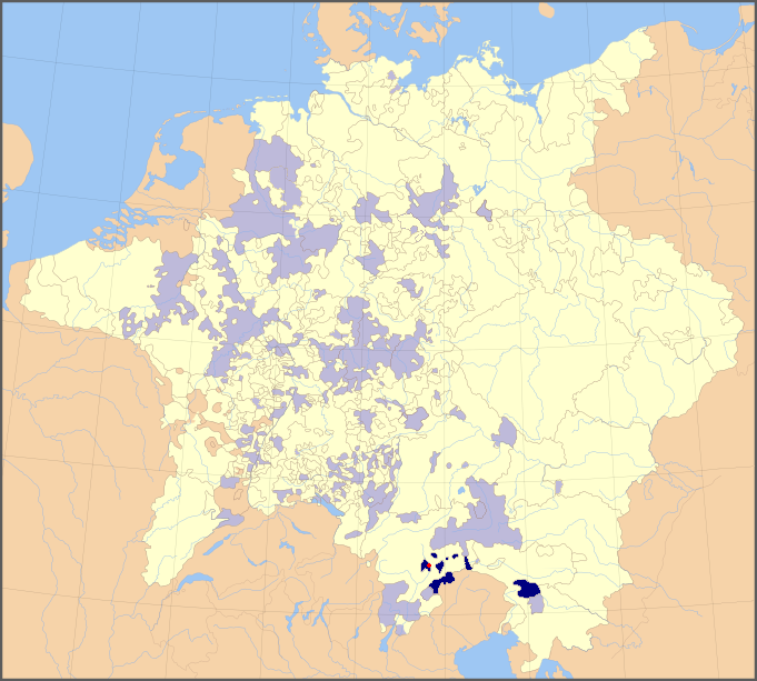 Map of the Holy Roman Empire, 1648, with the territories belonging to the prince-bishop of Brixen/Bressanone highlighted